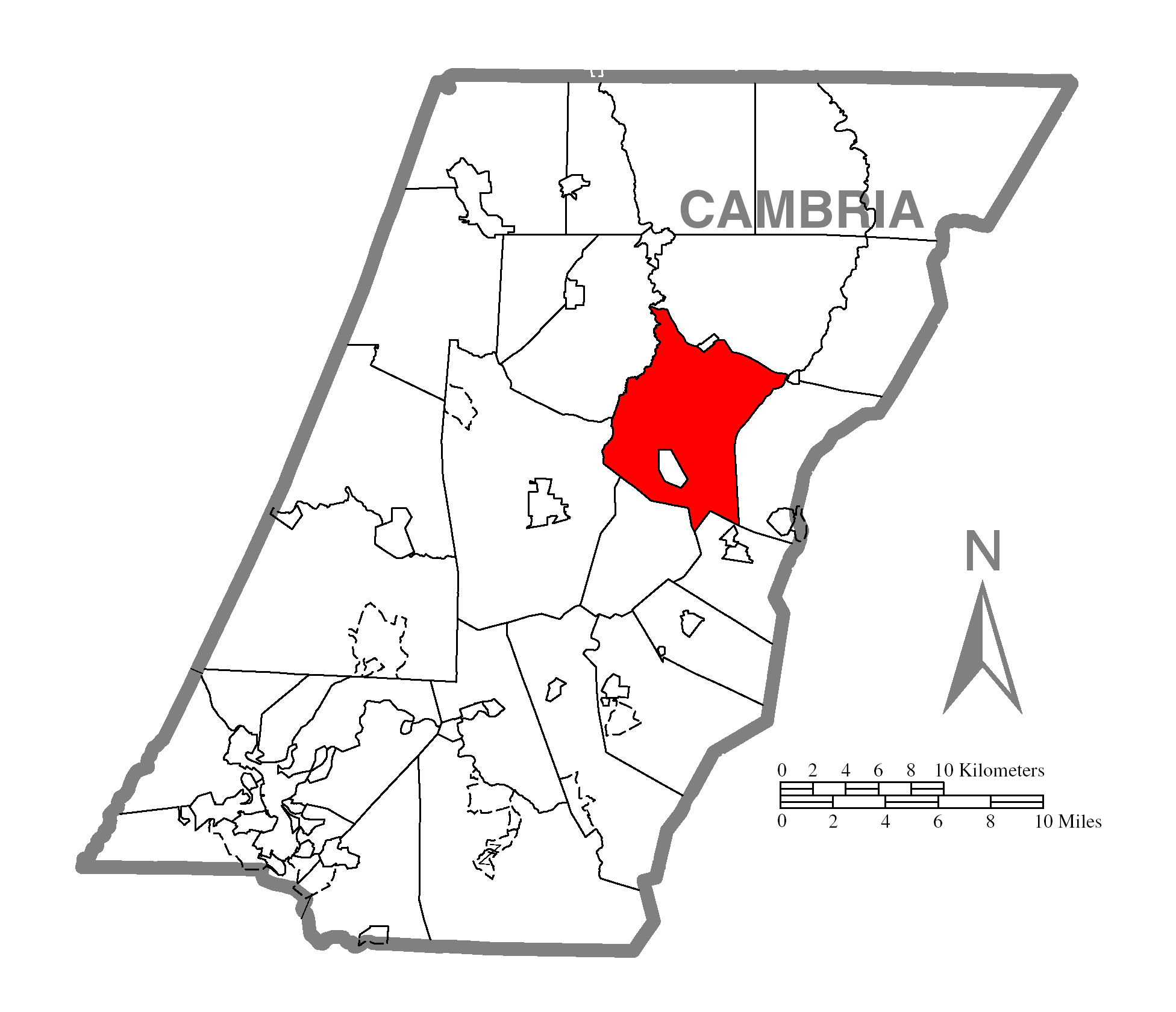 A map of Cambria County showing Allegheny Township, Pennsylvania (alternate) highlighted on the map.